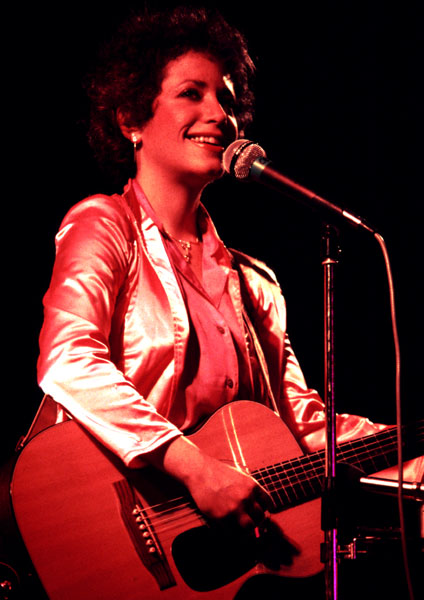 Janis Ian with guitar in cocert, Dublin. Photographer: Eddie Mallin